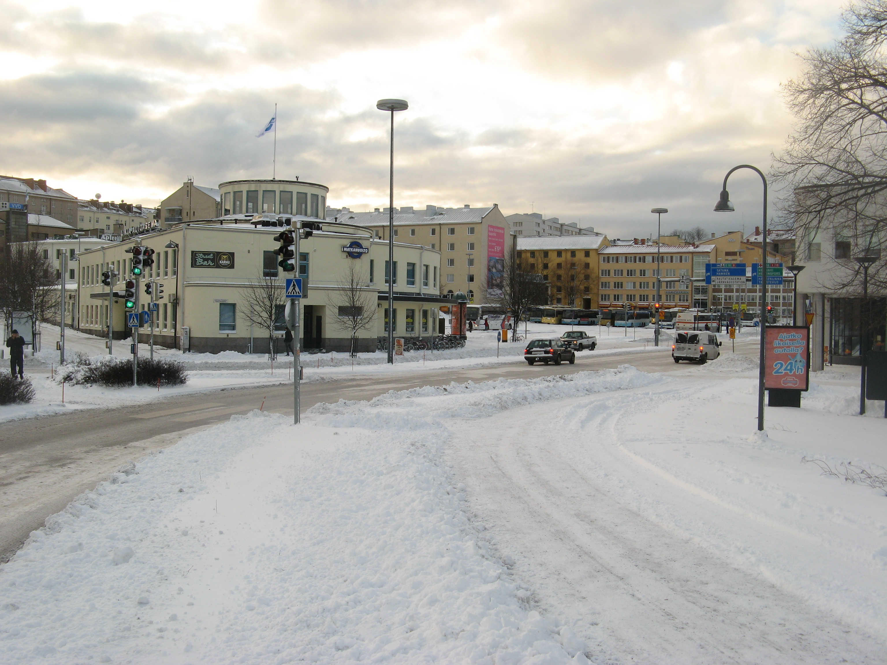 Coach station of Turku with Turku centre in the background.